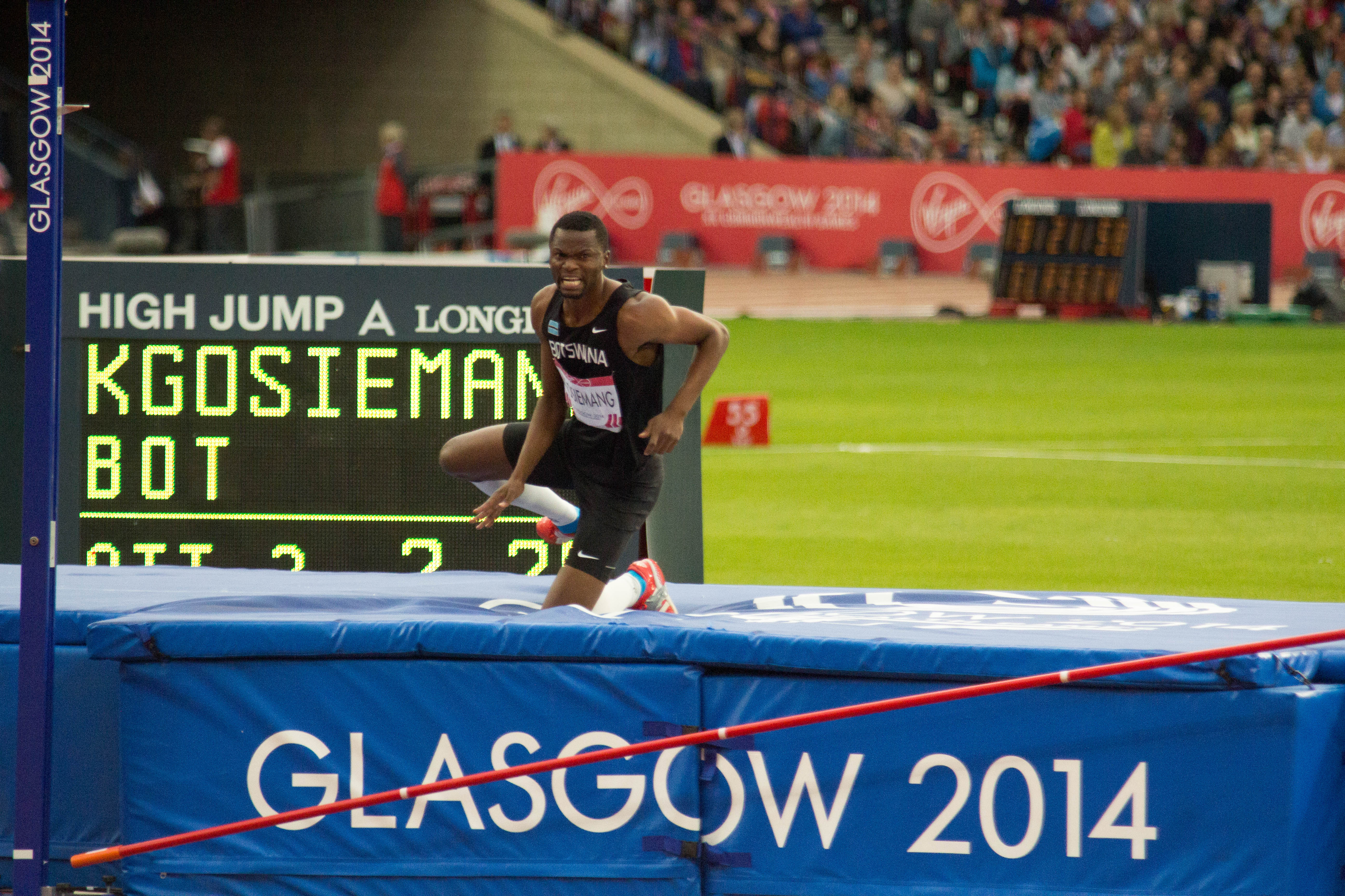 Commonwealth Games 2014 - Athletics Day 4 2014 Commonwealth Games Day 4: Athletics